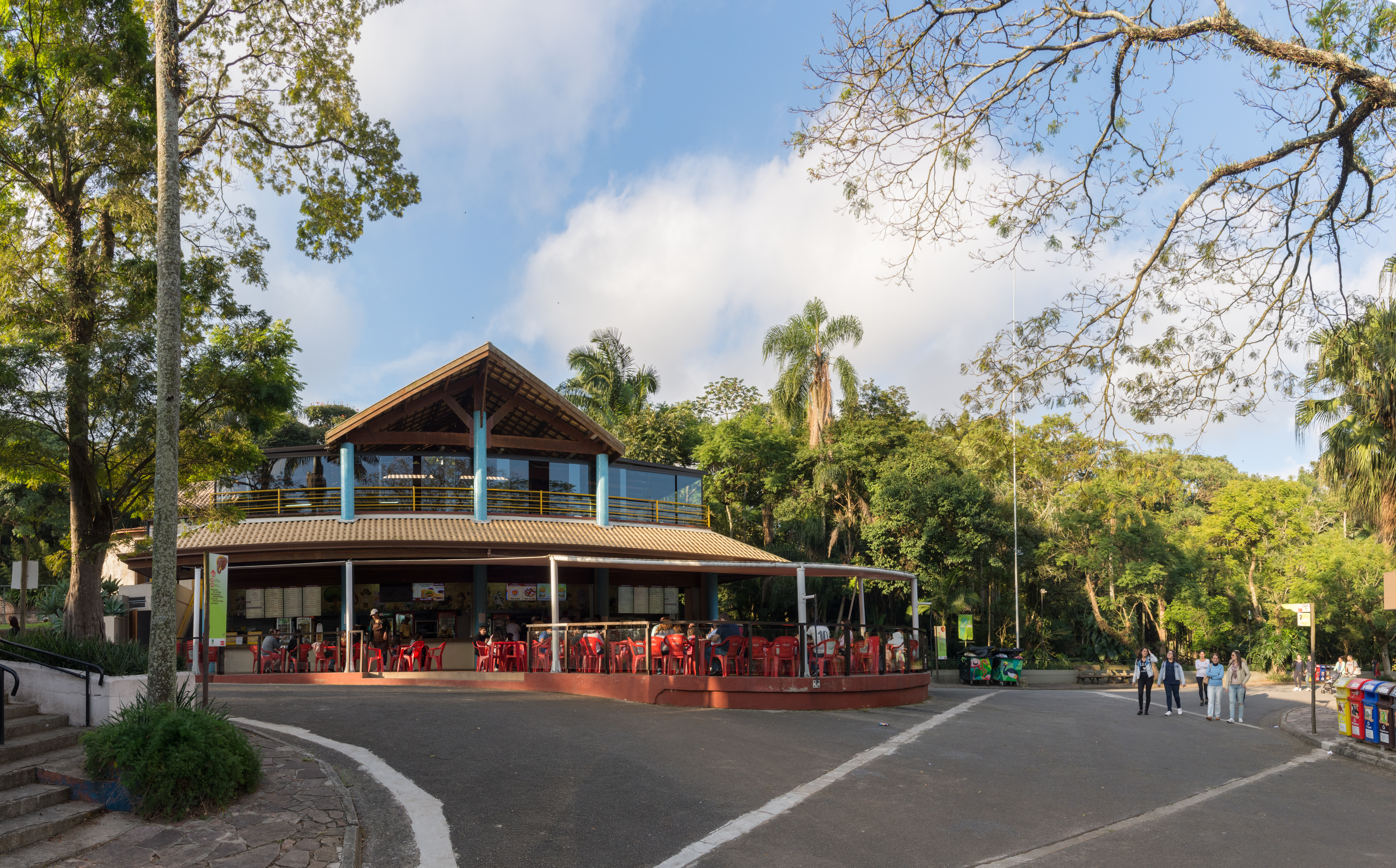 São Paulo Zoo